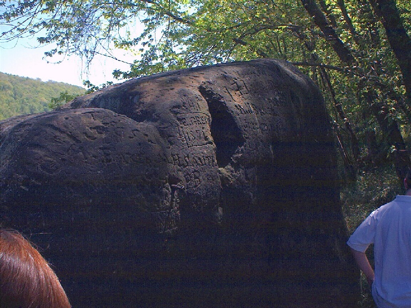 Rear (southern) side of Indian God Rock, a petroglyph-covered boulder along the Allegheny River in Rockland Township, Venango County, Pennsylvania, United States. The petroglyphs are primarily located on the front side of the rock, facing the river; carvings on this side are primarily recent vandalism. The rock is listed on the National Register of Historic Places for the archaeological potential of its petroglyphs.